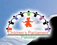 CPP LOGO